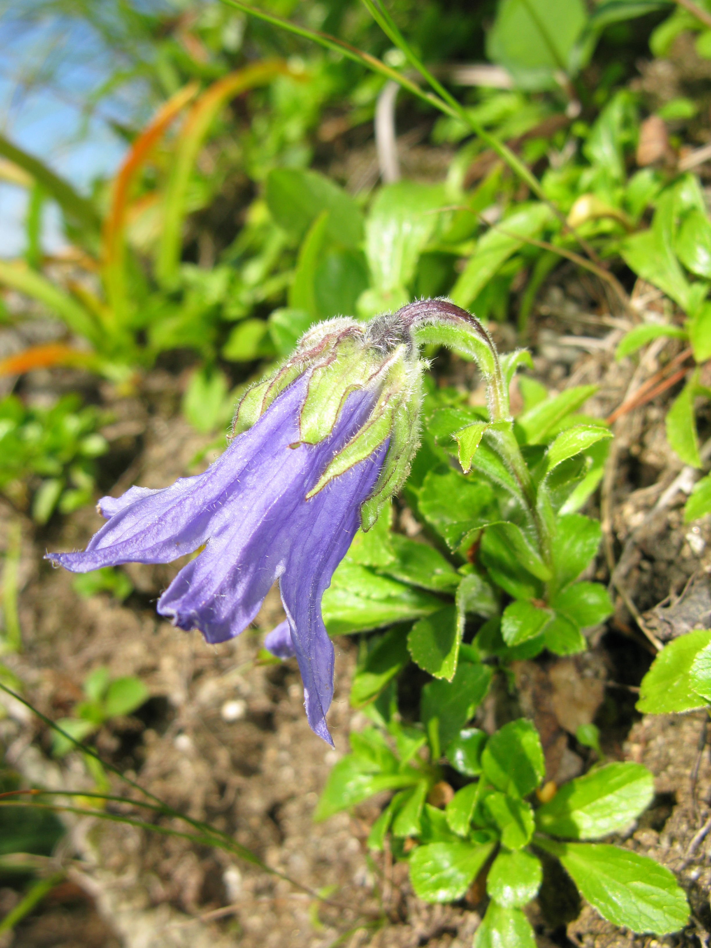 Campanula chamissonis, Mt. Iide, Fukushima pref., Japan